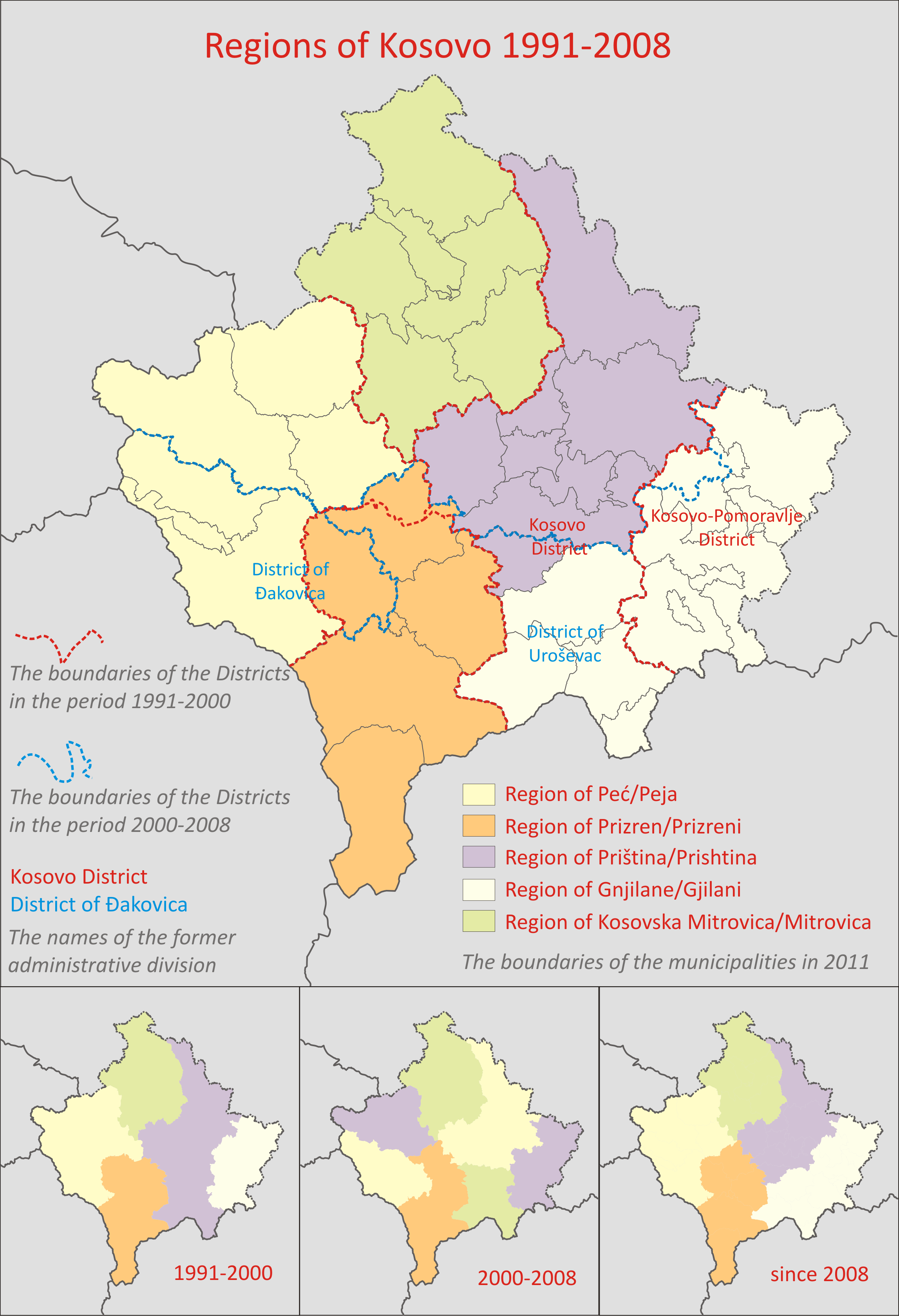 Changes to regional borders of Kosovo in the period 1991-2008